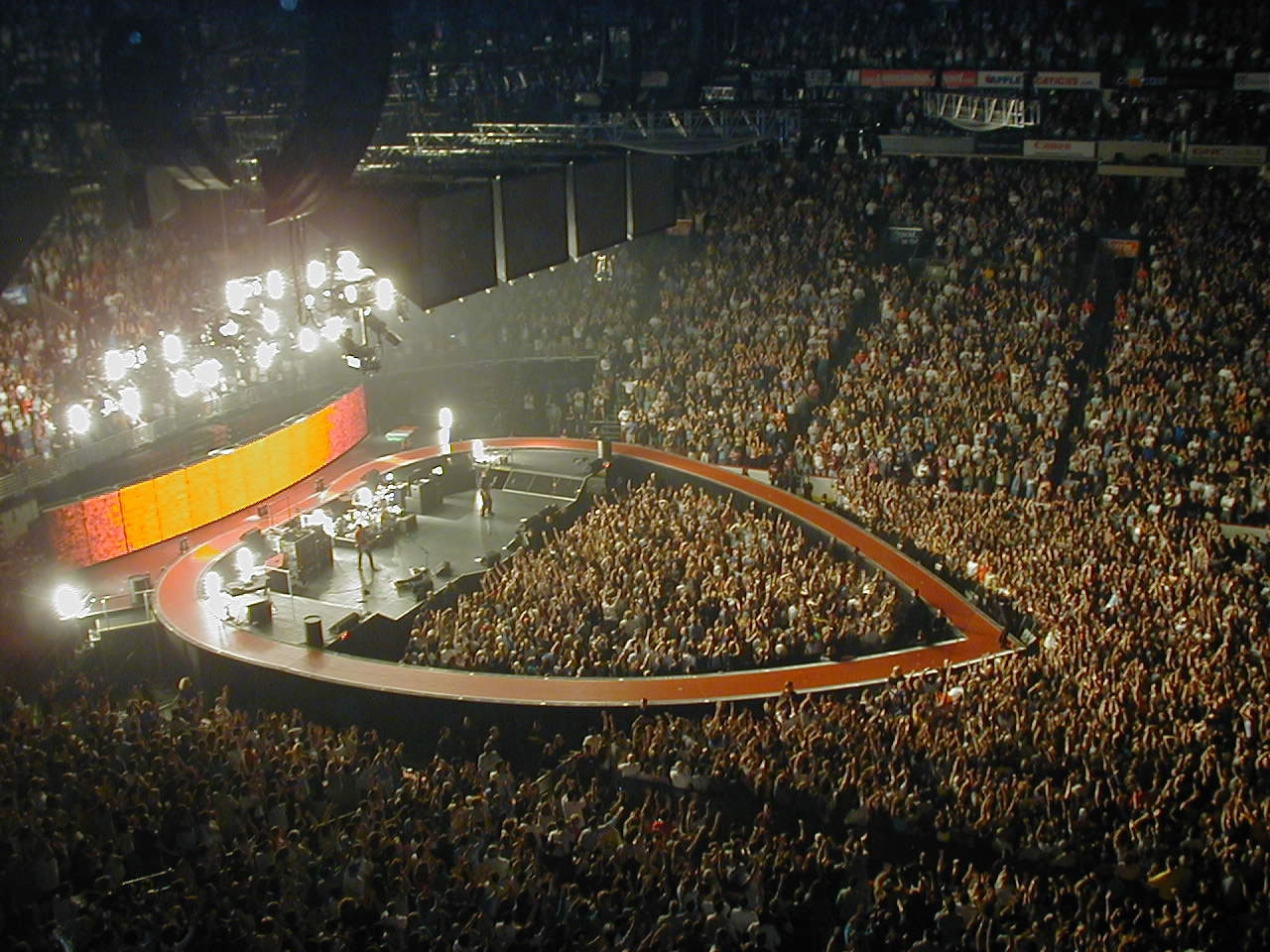 Photo from the U2 Elevation Tour stop in Philadelphia, PA on 12 June 2001 at the (then) First Union Center (now Wells Fargo Center).